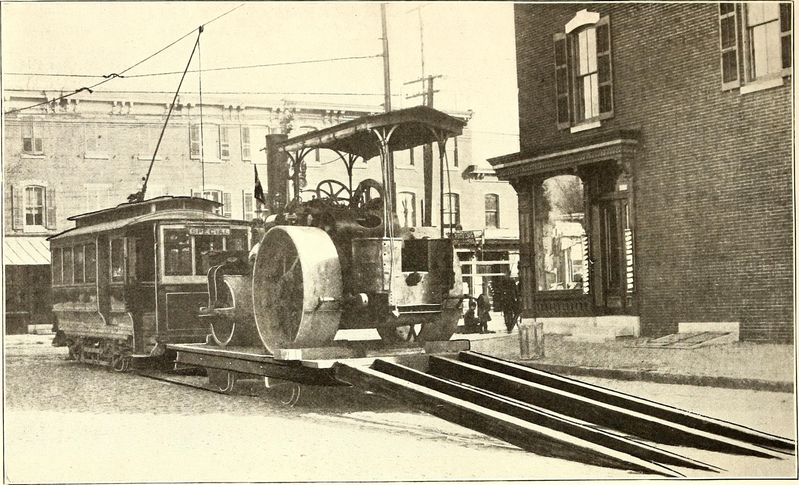 Title: The Street railway journal Year: 1884 (1880s) Authors: Subjects: Street-railroads Electric railroads Transportation Publisher: New York : McGraw Pub. Co. Text Appearing Before Image: of metal, is not subjectto as much damage as a wooden track gage would be. SPECIAL WORK The Haverford Avenue shops of the company turn out which is set in foundry sand, and the joints are then cast.The steel centers are, of course, set in after the joints ofthe crossing have been cast, and are held in place by zincby a method patented by the engineers of the company.The diameter of the circle on which the arms of the clamp-ing device swings is 8 ft. STANDARD STEAM RAILROAD CROSSING Fig. 6 shows an old form and Fig. 7 the latest form ofstandard steam railroad crossing built by the company, and 798 STREET RAILWAY JOURNAL. (Vol. XVIIL No. 23. adopted by the Pennsylvania Railroad, Baltimore & Ohioand other steam railroads crossing the tracks of the UnionTraction Company. The two are alike, except that in Fig. with a groove to take the flange of the street railway wheel.Each of these crossings provides manganese steel servicerails in one piece for the steam railroad service, while the Text Appearing After Image: FIG. 13 —ROAD ROLLER AND TRUCK 6 the street railway rails are bolted on to the steam railroadrails,.while in Fig. 7 they are all cast together. Fig. 6shows a standard right-angle crossing, while Fig. 7 showsan oblique crossing, but either can, of course, be made to